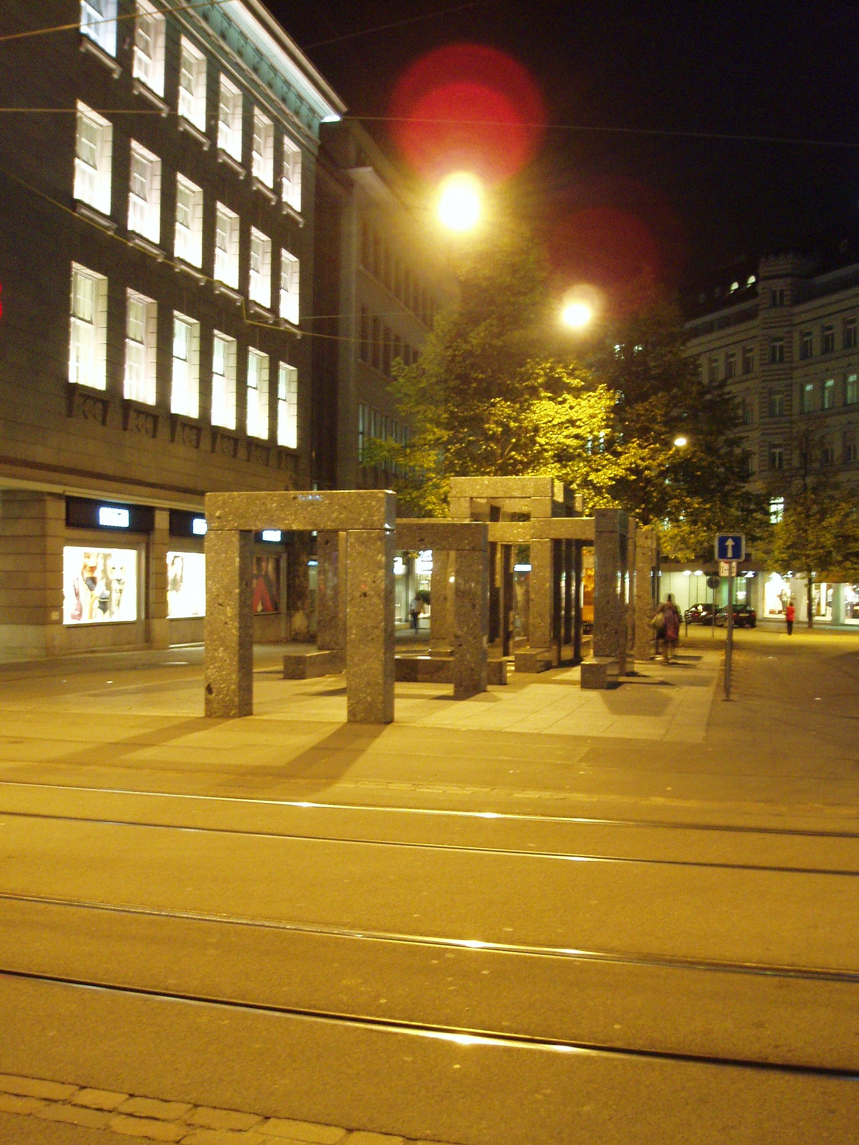 Granite sculpture by Max Bill, installed adjacent to the Bahnhofstrasse, Zürich in 1983.